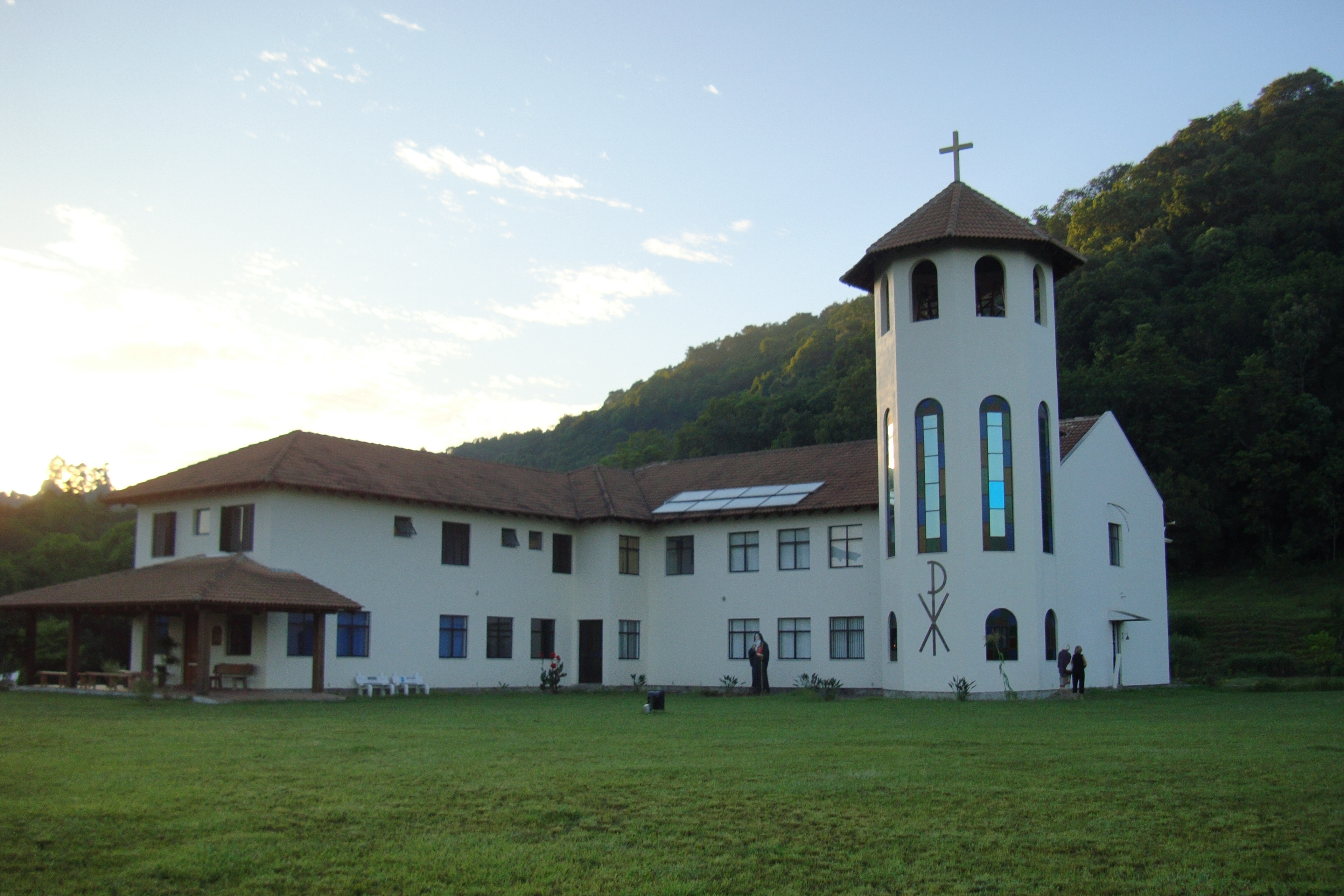 Holy Trinity Benedictine Monasterie in Santa Cruz do Sul, Rio Grande do Sul, Brazil.